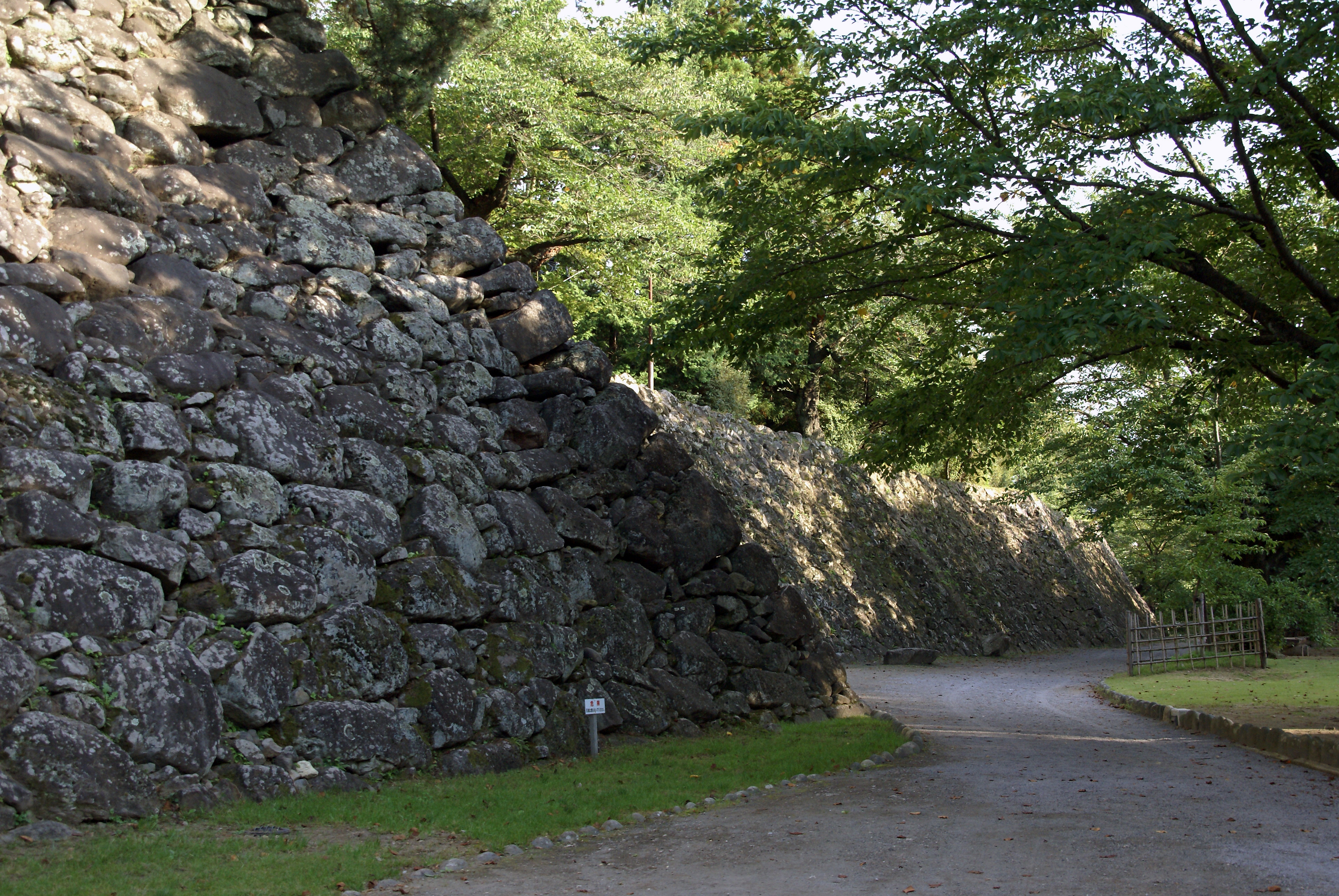 Komoro Castle in Komoro, Nagano prefecture, Japan